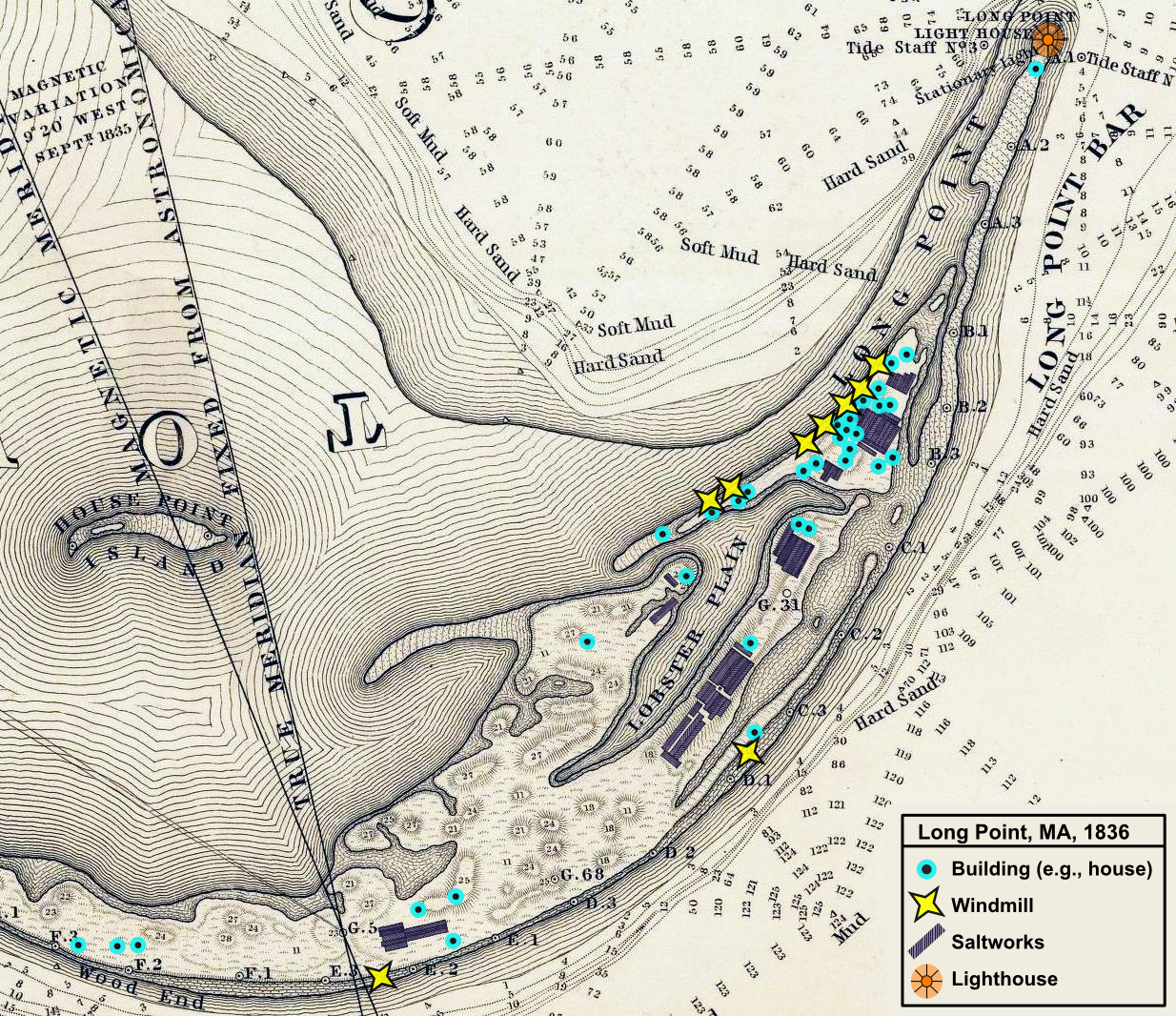 Village of Long Point, Provincetown, 1836. Extracted from "A Map Of The Extremity Of Cape Cod Including the Townships of Provincetown & Truro: A Chart Of Their Sea Coast And Of Cape Cod Harbour, State of Massachusetts" Excerpt focused to Long Point, Provincetown. Shows 9 windmills, 34 buildings, and several saltworks. Legend notation: "Wind mills for working salt pumps are represented thus: x" "Salt works for making salt by evaporating sea water are represented thus" [shows long, hatched rectangles] Executed under the direction of Major J.D. Graham U.S. Top. Engs. During portions of the years 1833,'34, &'35 ... W.J. Stone Sc. Wash. Surveyed And Projected By J.D. Graham ... Drawn From The Original Projects And Notes, By J.E. Johnston ... A.A. Humphreys .... J.. Macomb ... W.R. Palmer ... Reduced from the original in the Bureau of U.S. Topographical Engineers, Washington, by Wash: Hood 1836. List No: 2433.005 Series No: 5 Engraver or Printer: Stone, W.J.; Hood, Washington; Graham, J.D.; Izard, J.F.; Lee, T.L.; Macomb, J.N.; Johnston, J.E.; Henderson, J.E.; Humphreys, A.A.; Palmer, W.R. Publication Author: Hood, Washington; Graham, Maj. J.D. Pub Date: 1836 Pub Reference: Guthorn p15. Orig. Obj Height cm: 147 Orig. Obj Width cm: 179 Orig. Scale 1:10,560 Call Number: G3762.C35 1835 .G7 Collection: David Rumsey Historical Map Collection